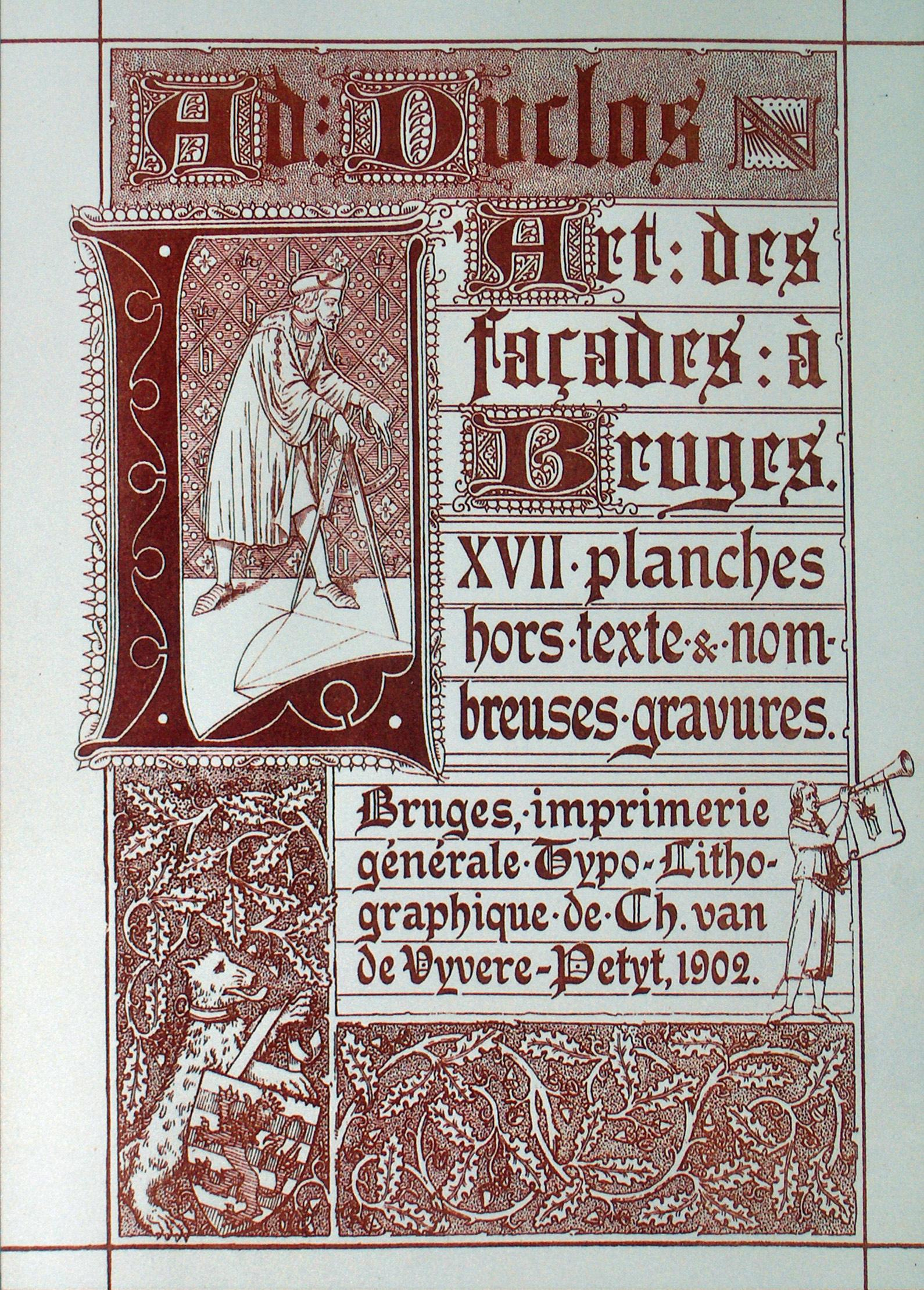 "L' Art des façades à Bruges" book written by Adolf Duclos (1841-1925) was a priest from Bruges, Belgium. He was an author, an archaeologist, a historian and a proponent of the neo-Gothic style in Bruges. Edit Van De Vyvere Petit